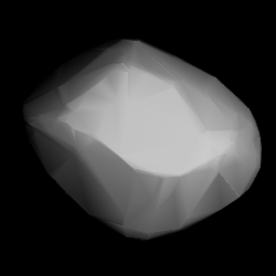 3D convex shape model of 1337 Gerarda, computed using light curve inversion techniques. J. Hanuš, J. Ďurech, M. Brož, B. D. Warner (June 2011). "A study of asteroid pole-latitude distribution based on an extended set of shape models derived by the lightcurve inversion method". Astronomy and Astrophysics 530: A134. ISSN 0004-6361. arXiv